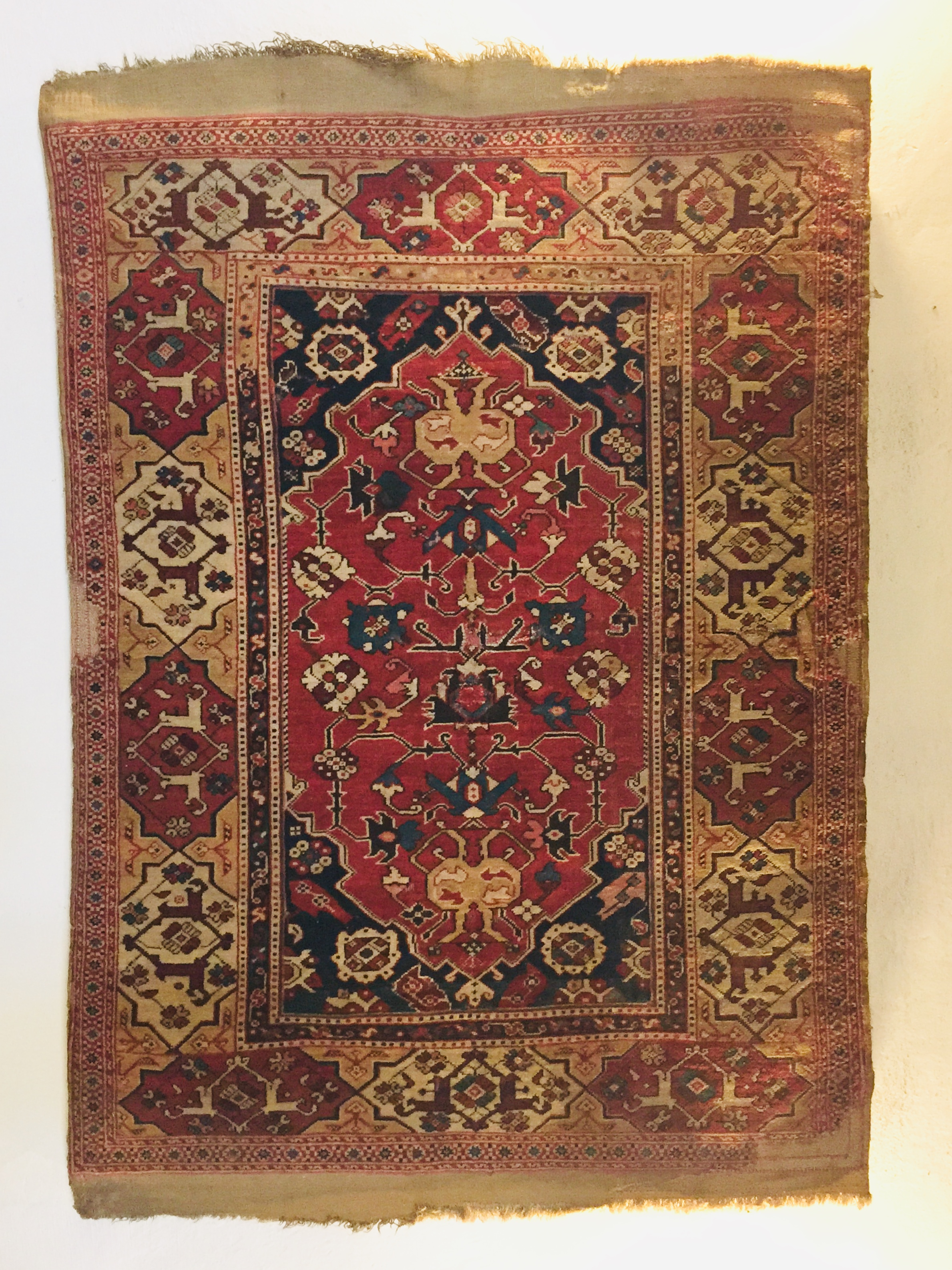 Anatolian rugs from the Early Modern period have survived in Transylvanian churches. Hence they are known as "Transylvanian rugs". Double niche rug, Brașov County, Romania.